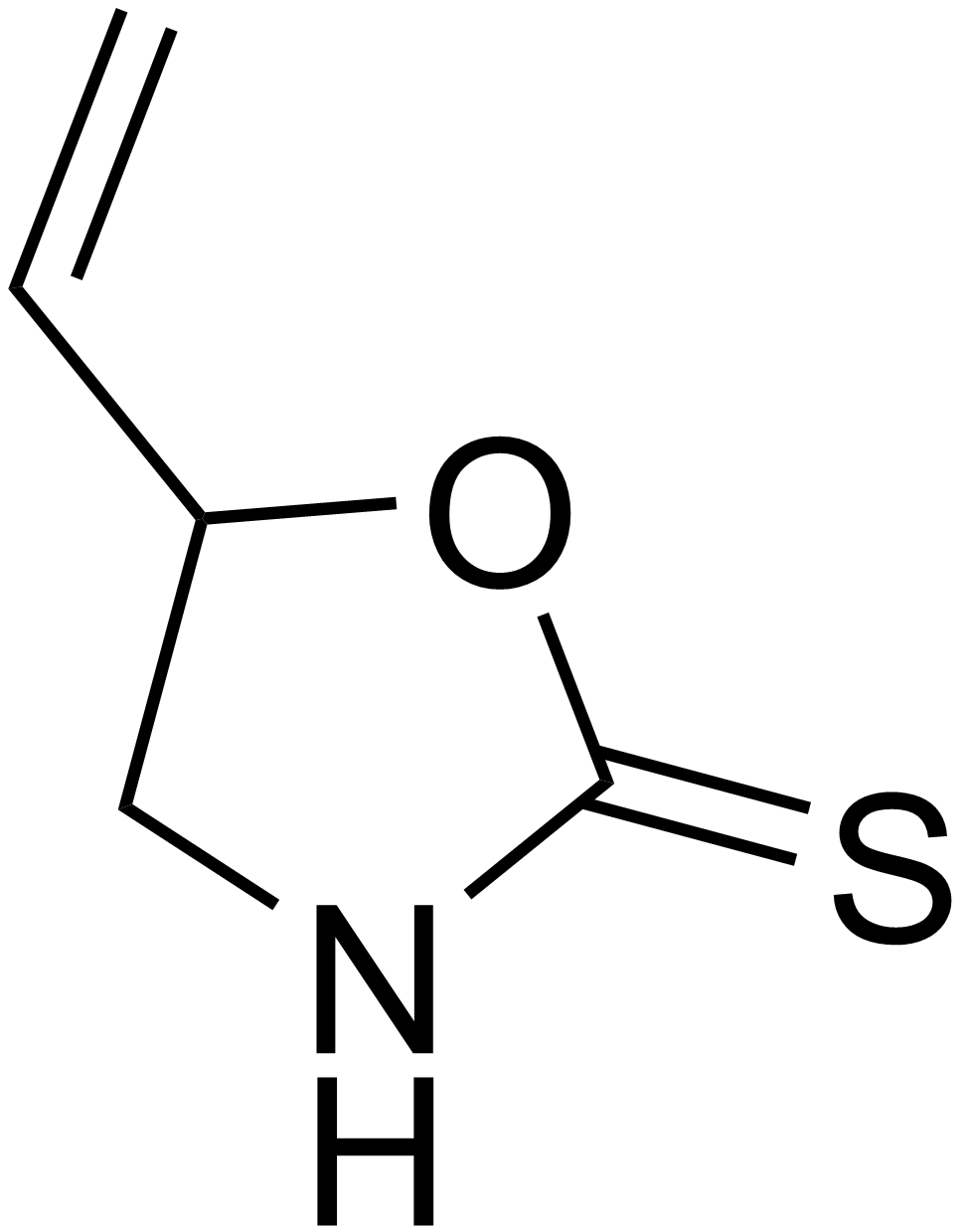 Structure of Goitrin (5-ethenyl-1,3-oxazolidine-2-thione)